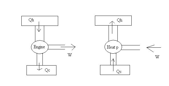 Schematic diagram for a heat engine, compared to heat pump / refrigerators